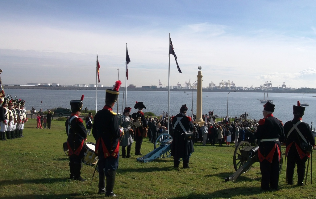 Bastille Day celebrations hosted by French Consul General in Australia and Friends of the Laperouse Museum on 14th July 2013